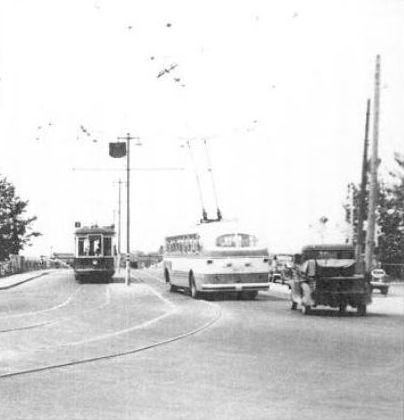 Streetcar and trolleybus cross Calgary's Louise Bridge in 1947.